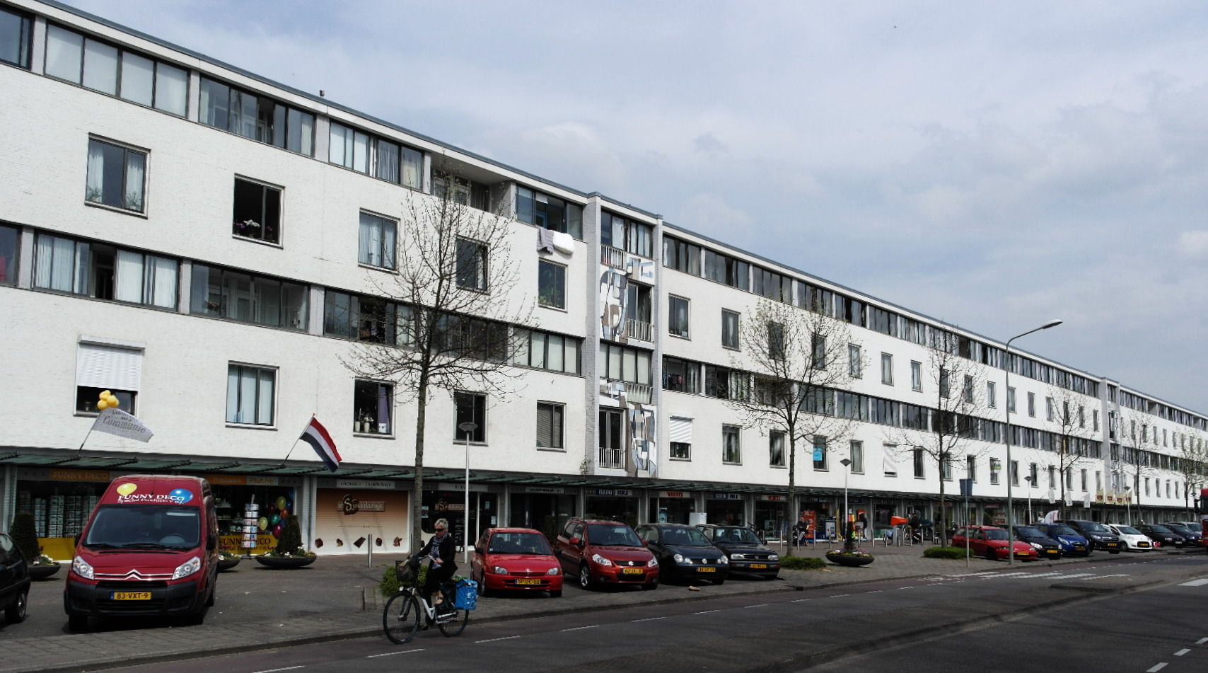 Maastricht, the Netherlands. Apartment blocks above shops on Clavecymbelstraat in the Maastricht-West neighbourhood of Caberg, designed in 1958 by Gerard Snelder. The gable decorations are by Daan Wildschut.